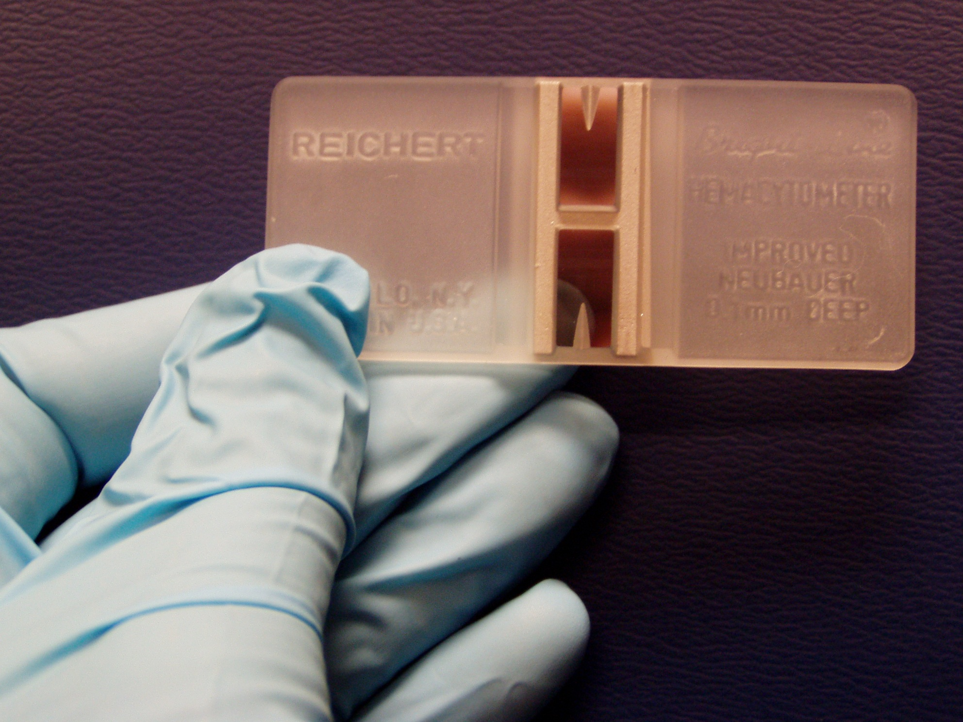 A hemocytometer: each of the two semi-reflective rectangles is a chamber for counting cells.